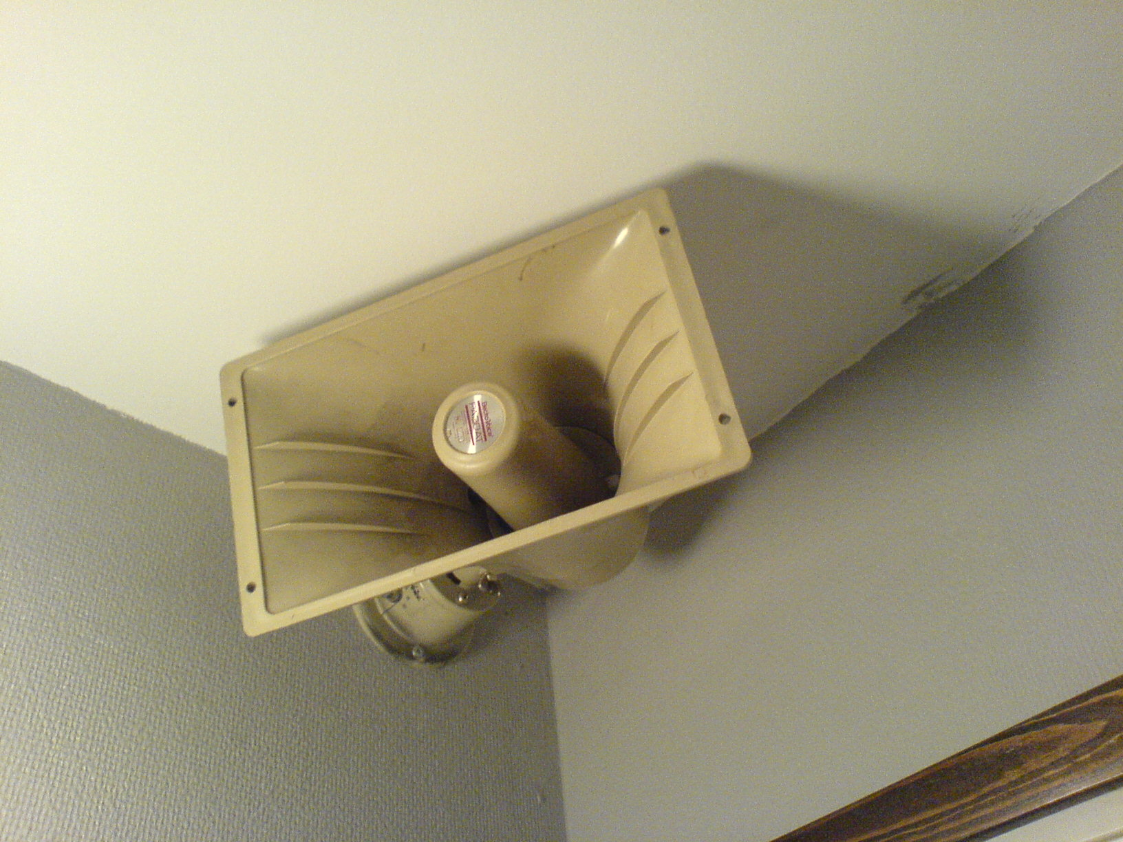 Public address horn loudspeaker, Electro-Voice PA30AT. This type is called a reflex or folded horn. The sound waves follow a zigzag path, from the driver diaphragm in the back through an exponentially increasing duct in the central projection, and out the rectangular outside horn.